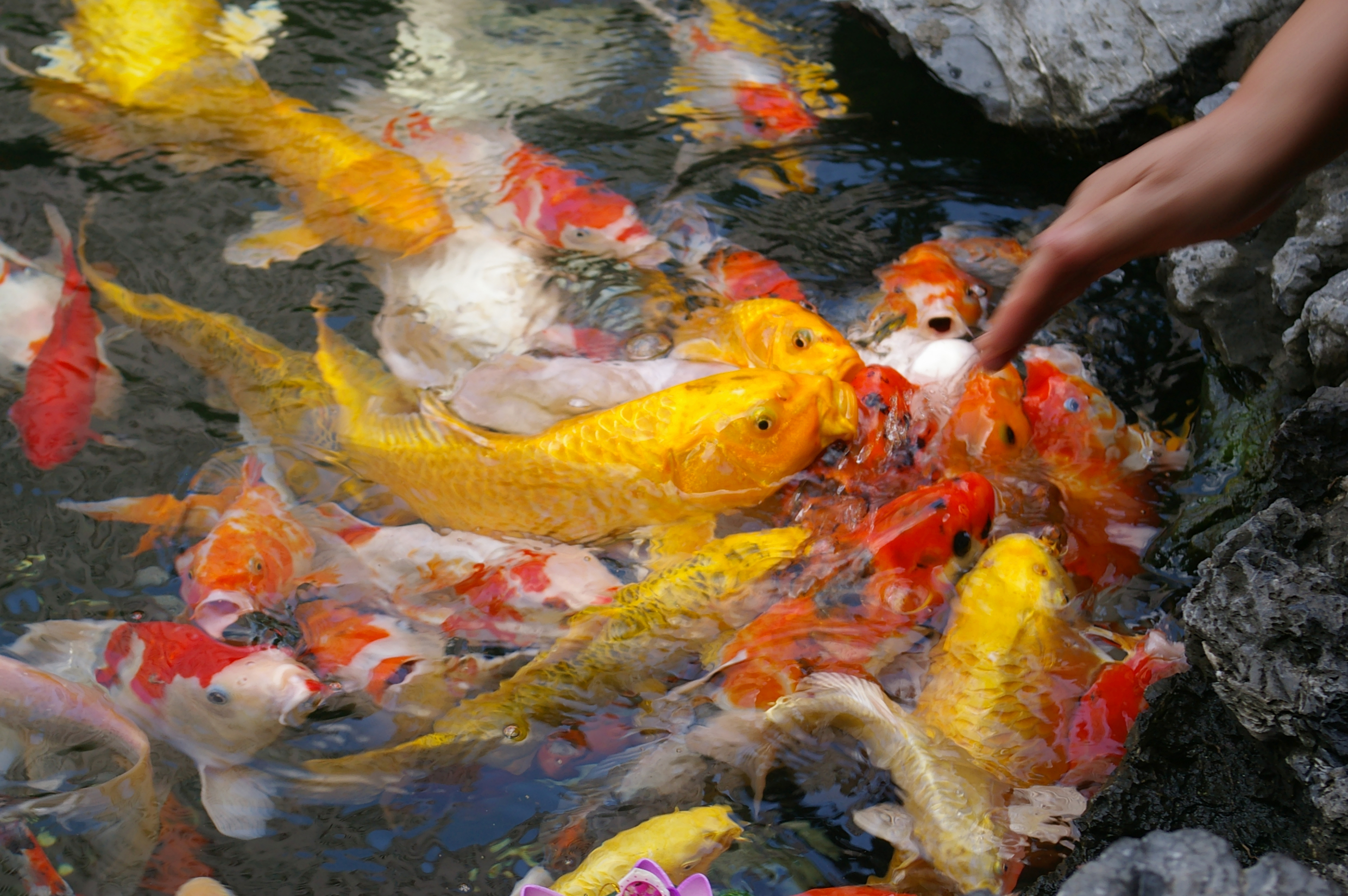 Koi Fish